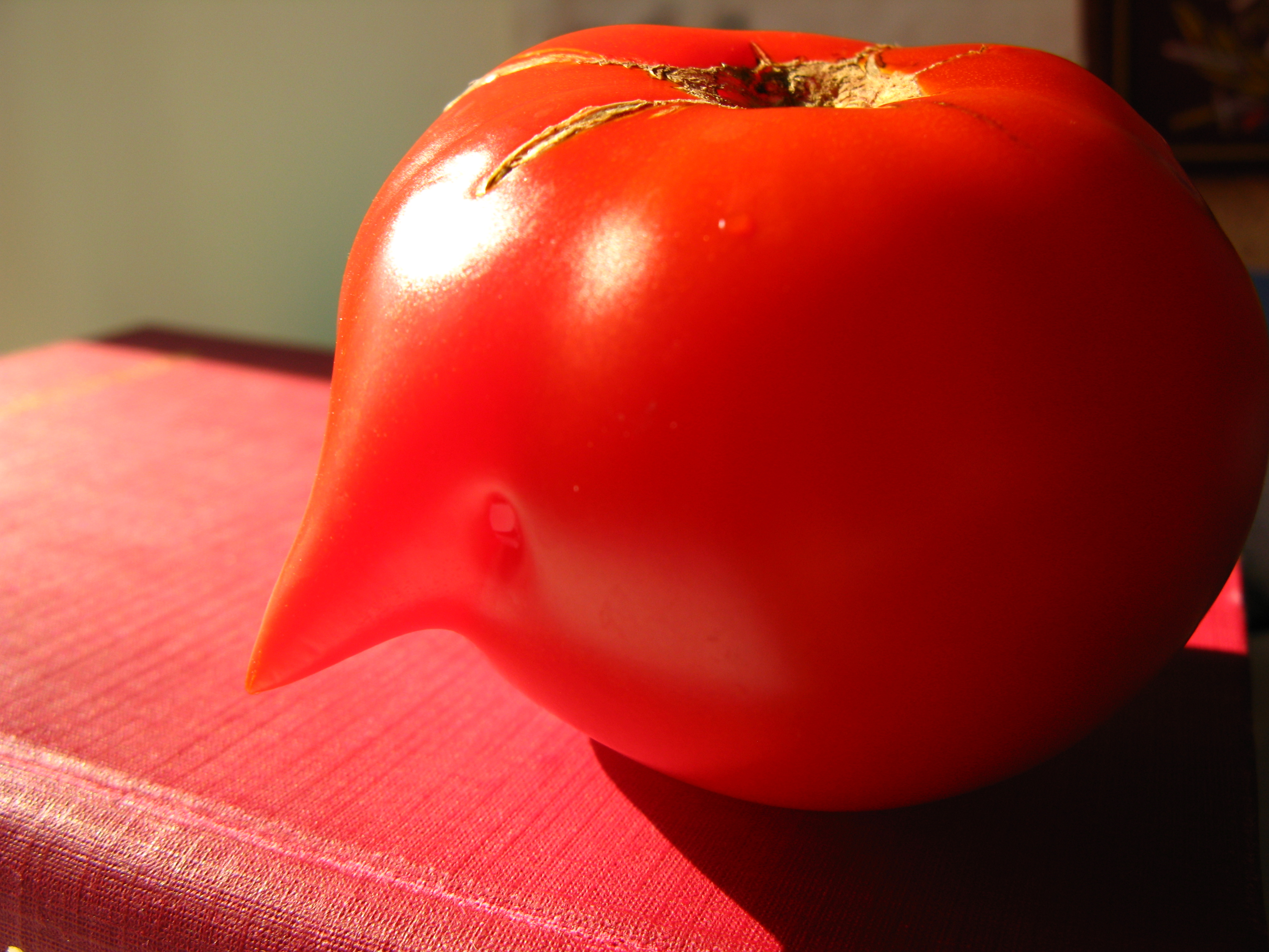 Tomato